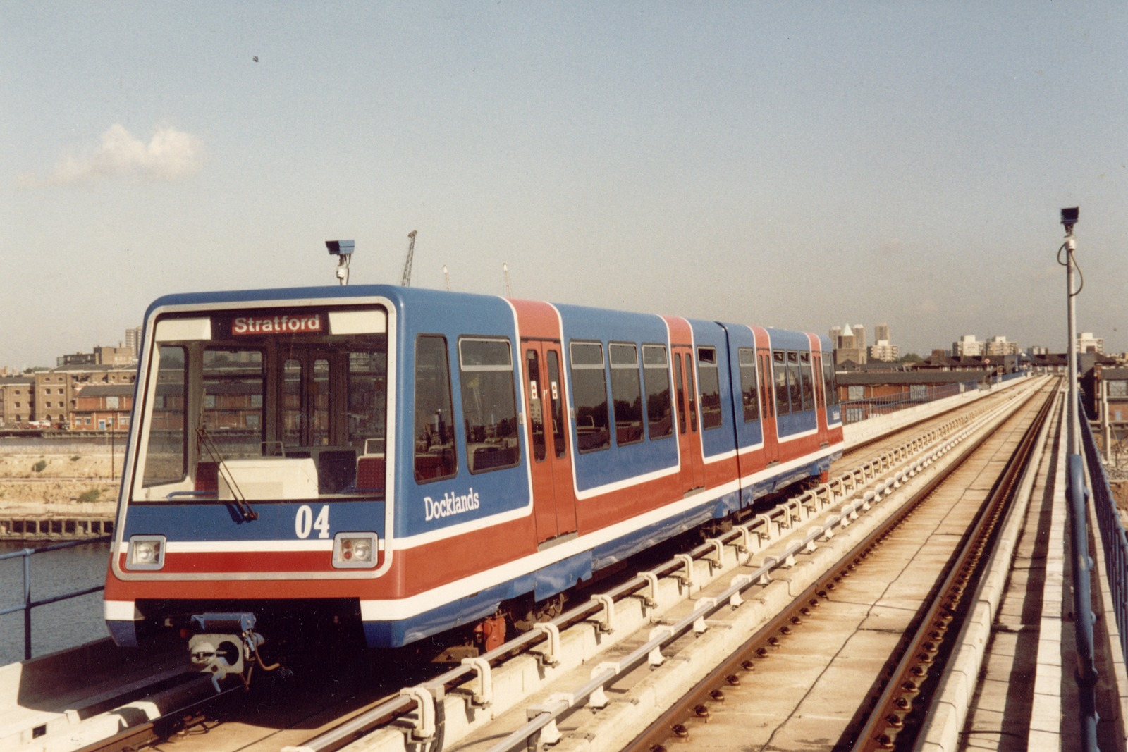 A first generation train (P86 stock) of Docklands Light Railway at West India Docks.